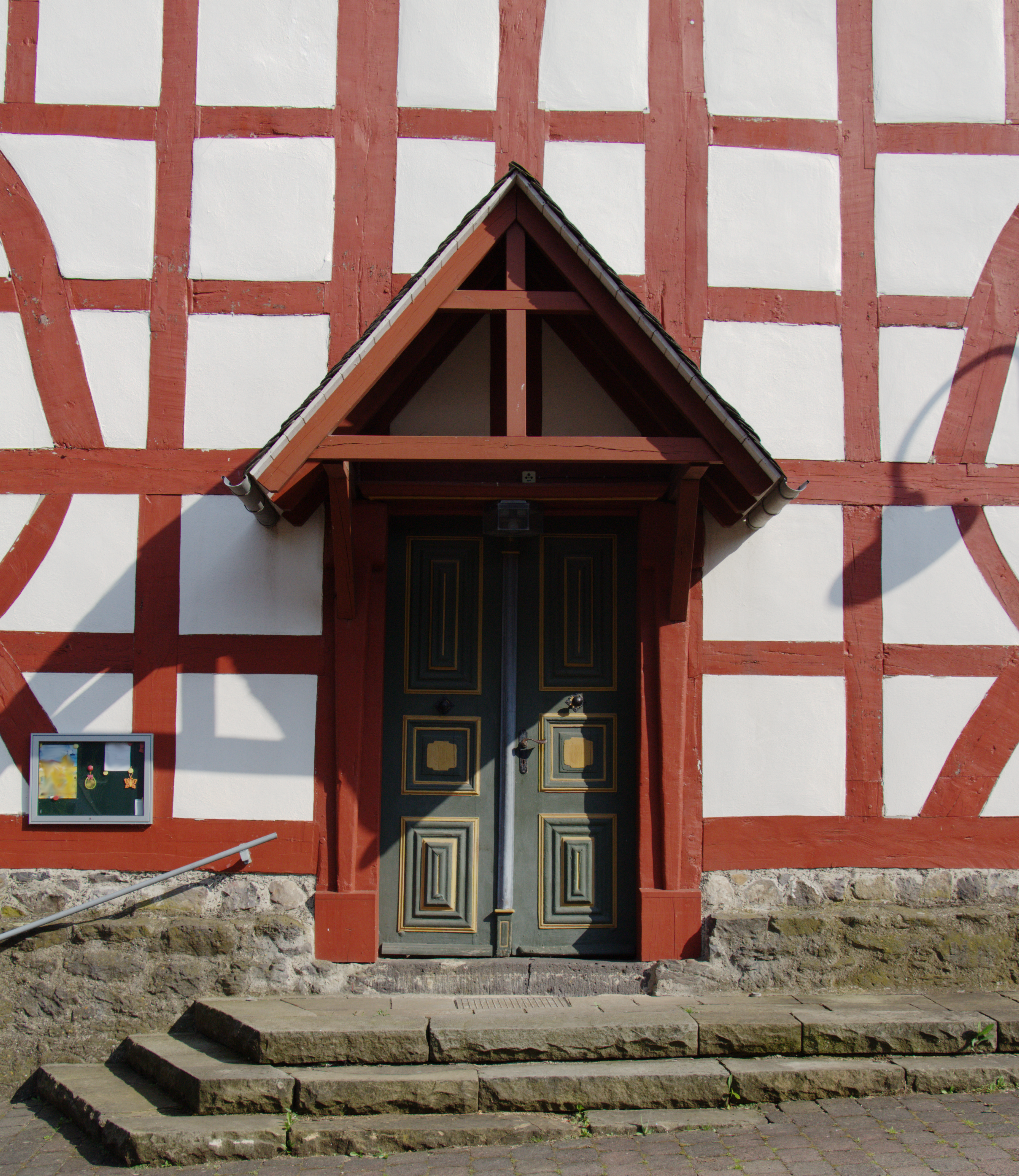 Half-timbered church (portal) in Ulrichstein, Unter-Seibertenrod Eichwaldstrasse, Hesse, Germany